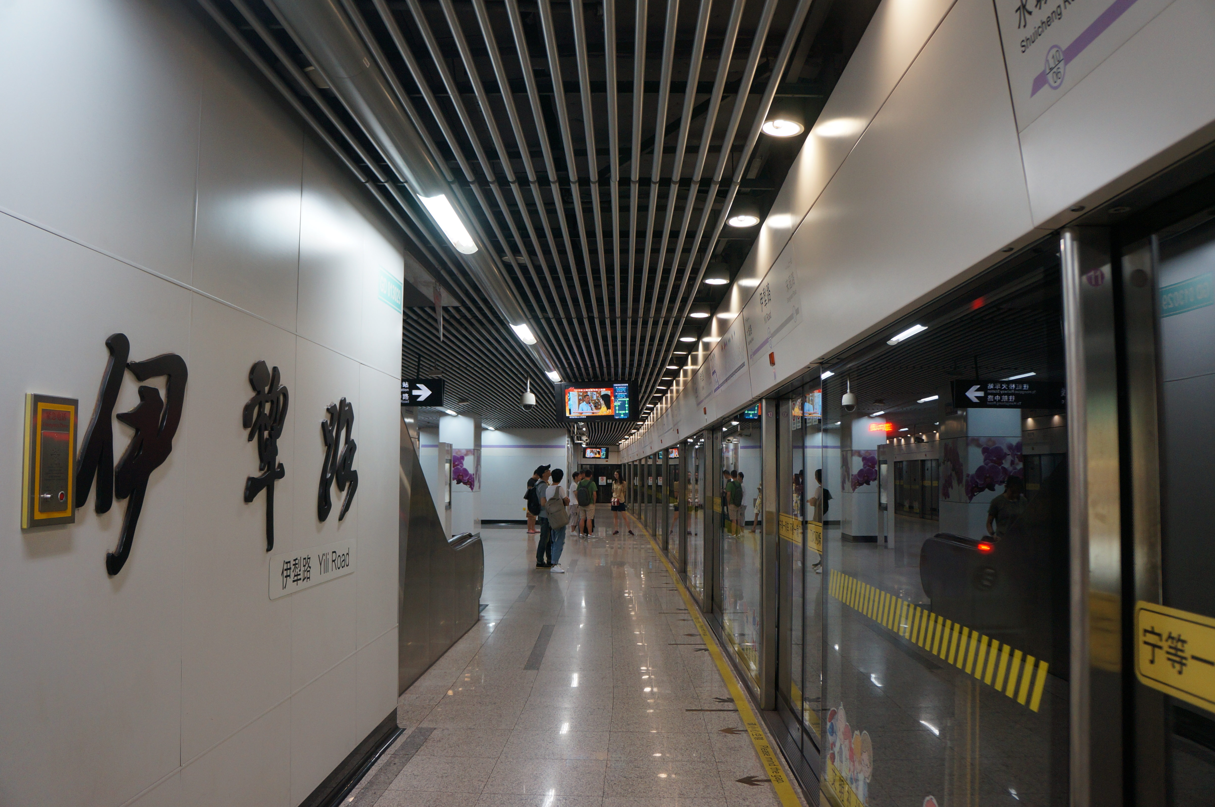 201609 Nameboard of Yili Road Station